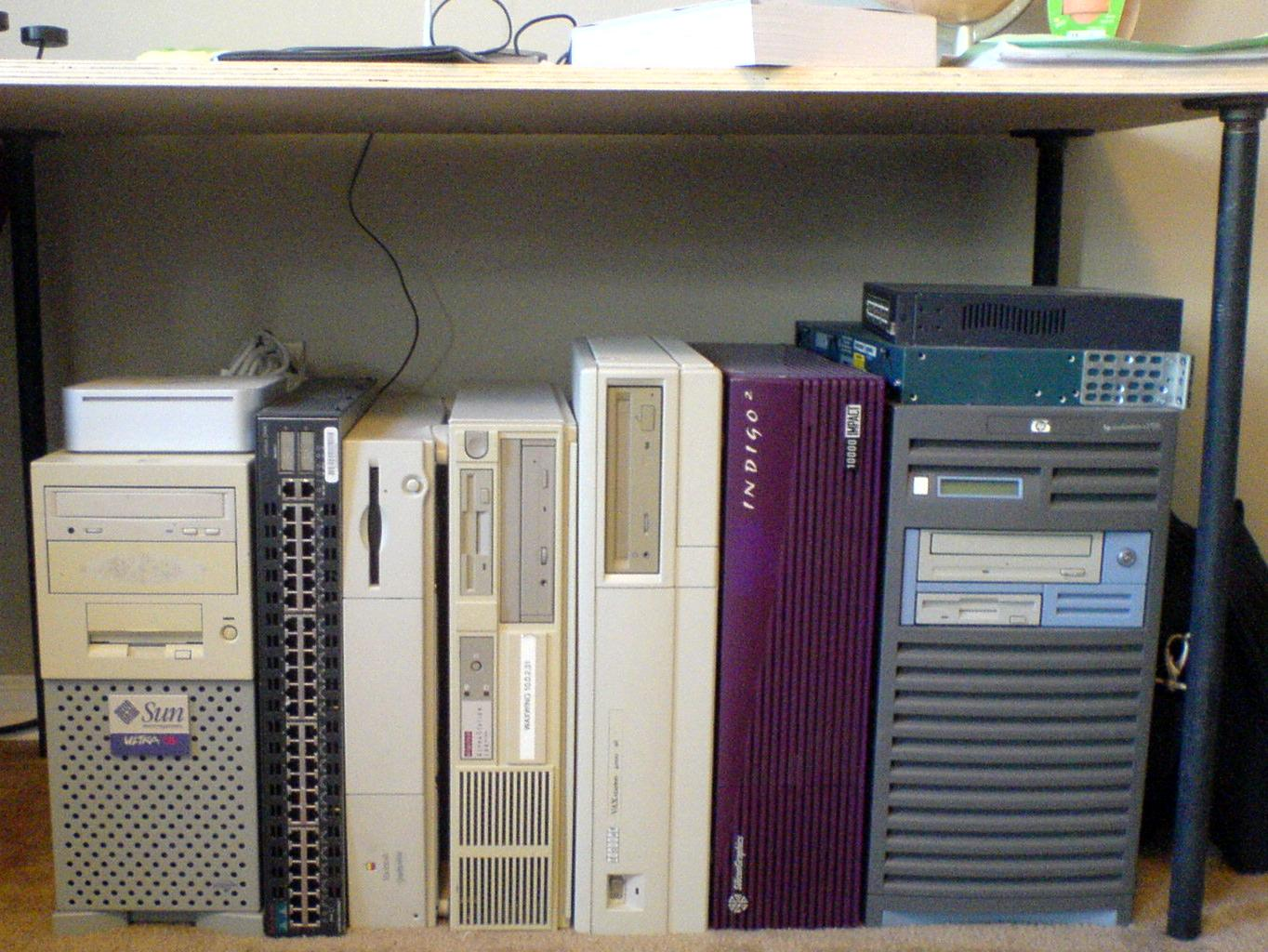 Collection of Unix workstations and some other pieces of computer hardware. Workstations made by Sun Microsystems, DEC, SGI, and HP.